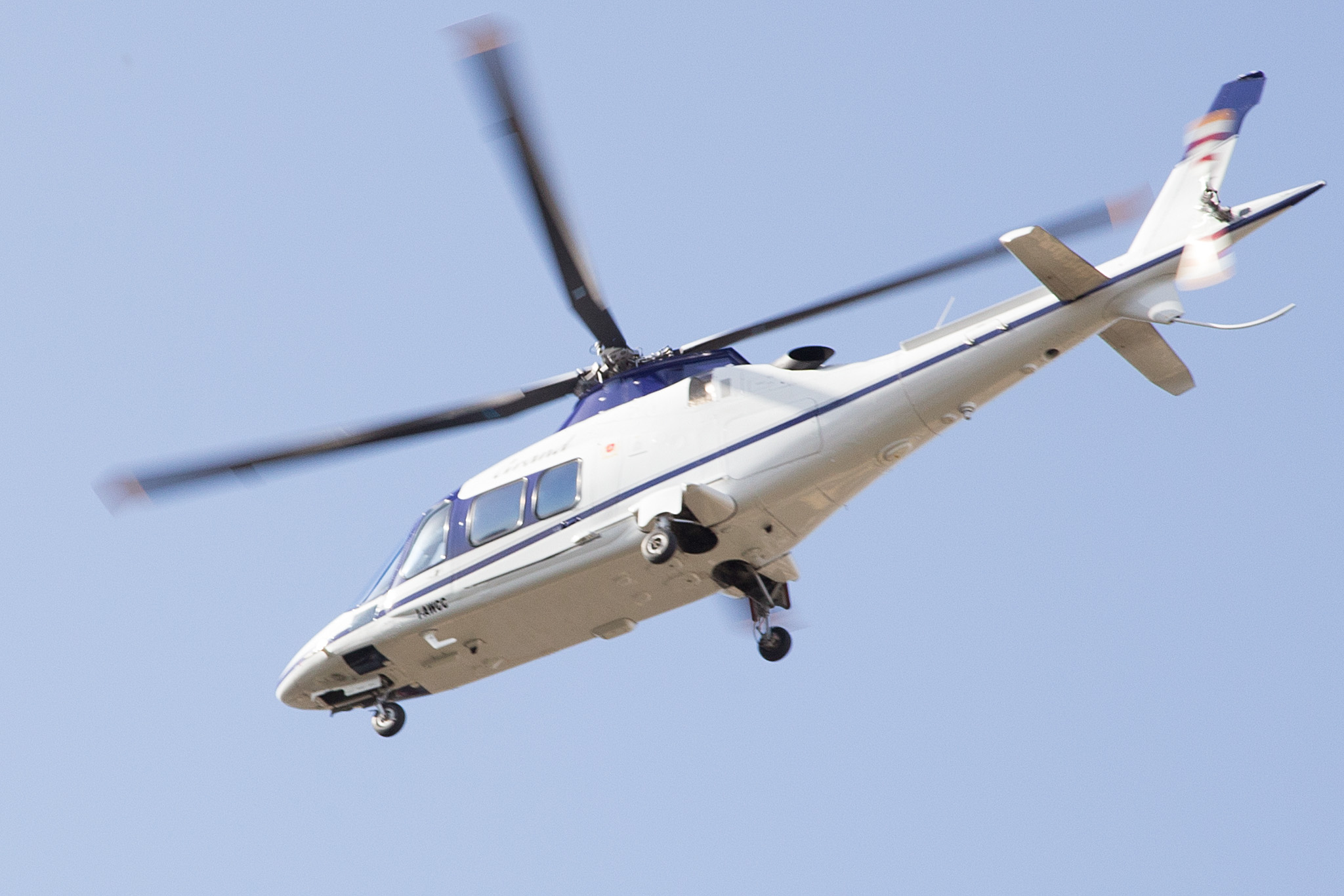 Emeritus pope Benedict XVI's helicopter lifts off the Vatican City heliport after having carried him. Cropped photo